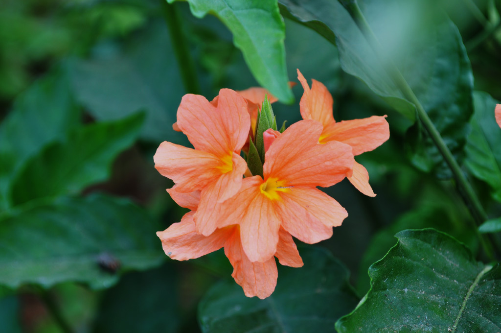 Fire Cracker Flowers